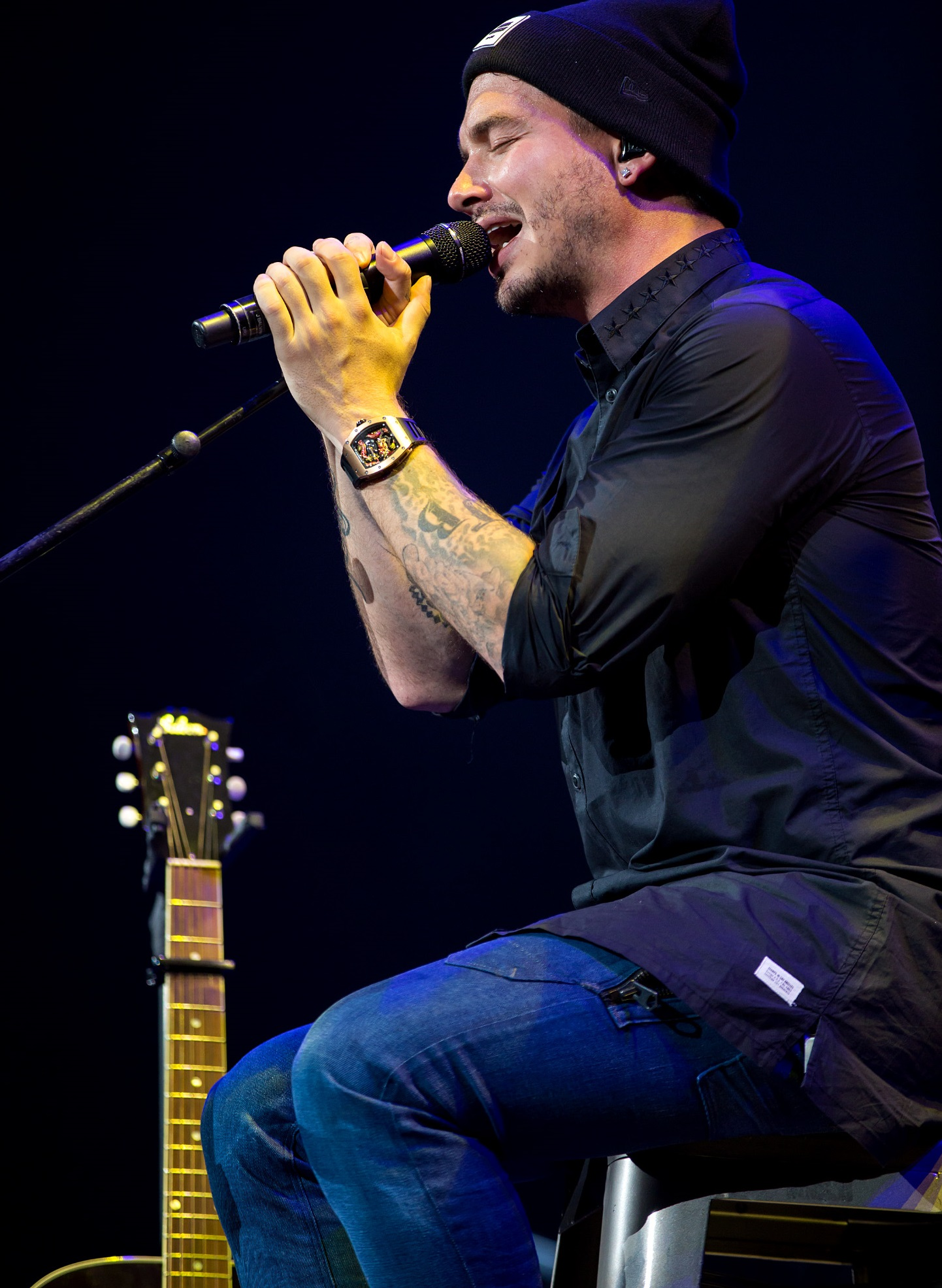 J Balvin performing in 2015